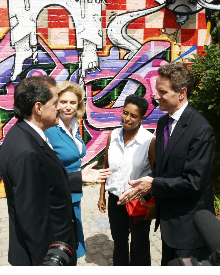 Congressman José E. Serrano (NY-16), Congresswoman Carolyn Maloney (NY-14), President and CEO of The Point Community Development Corporation Maria Torres, and Secretary Geithner at The Point in the Bronx.